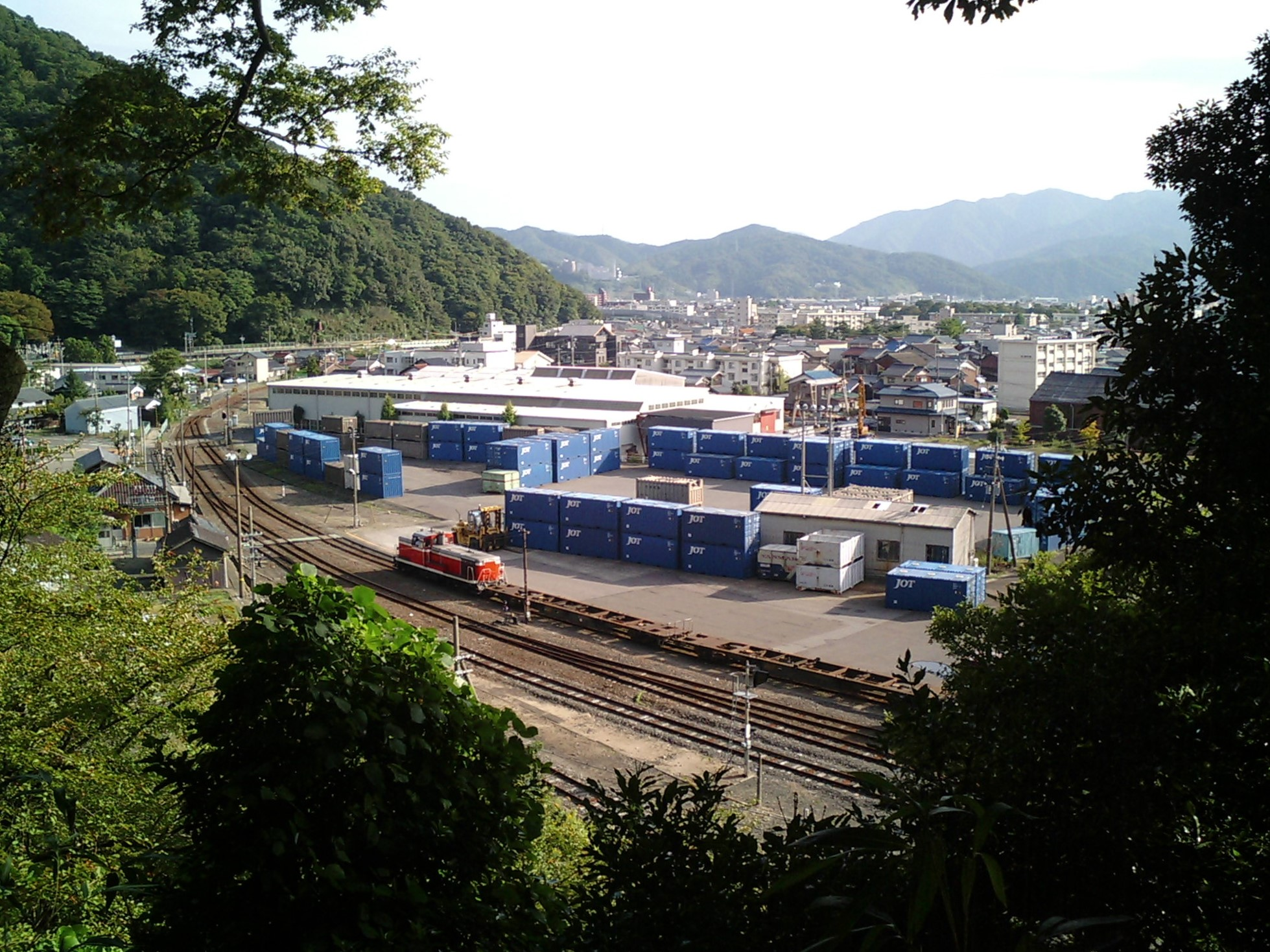 View of Tsurugaminato Station